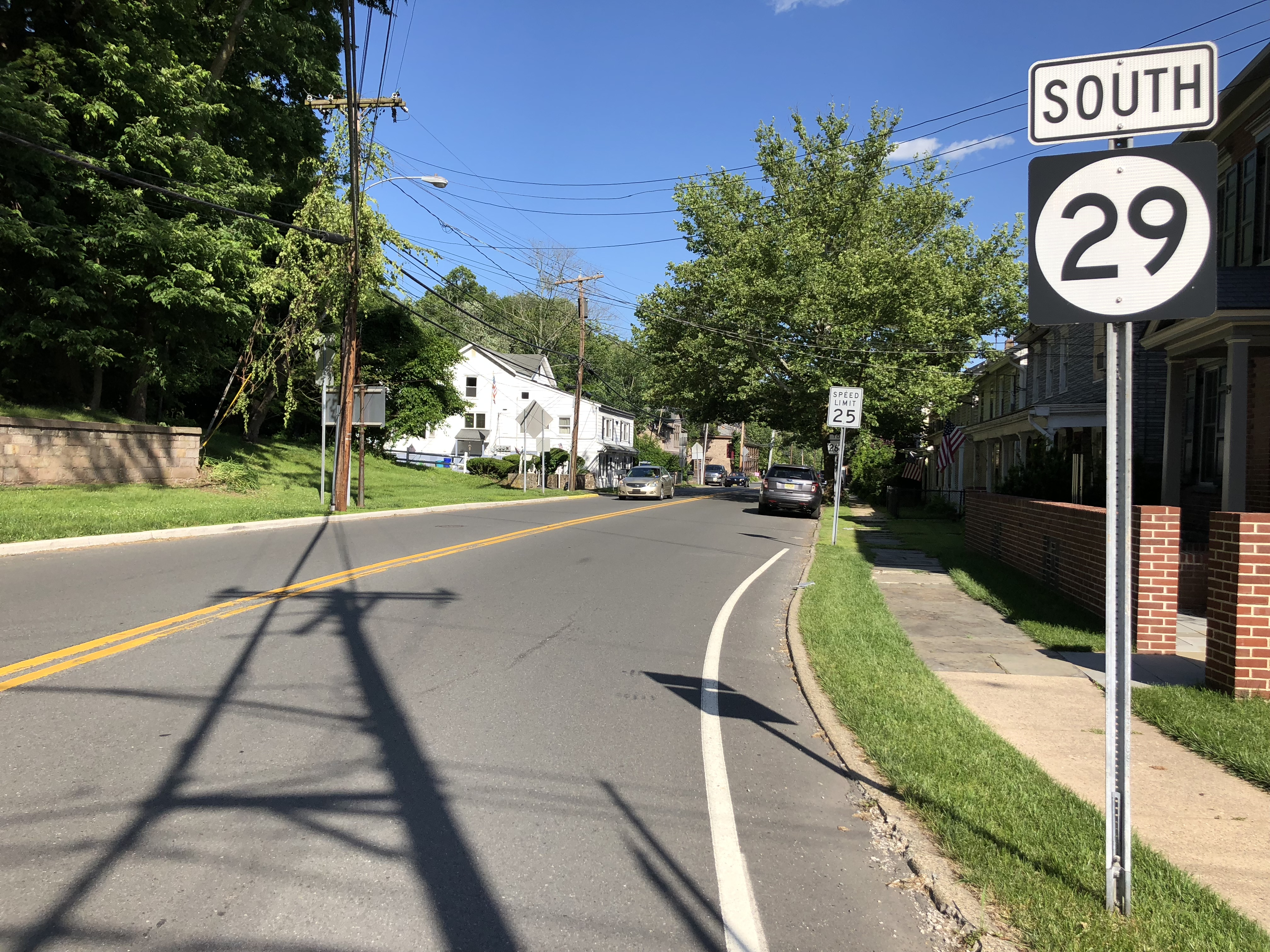 View south along New Jersey State Route 29 (Main Street) at Hunterdon County Route 523 (Stockton-Flemington Road) in Stockton, Hunterdon County, New Jersey